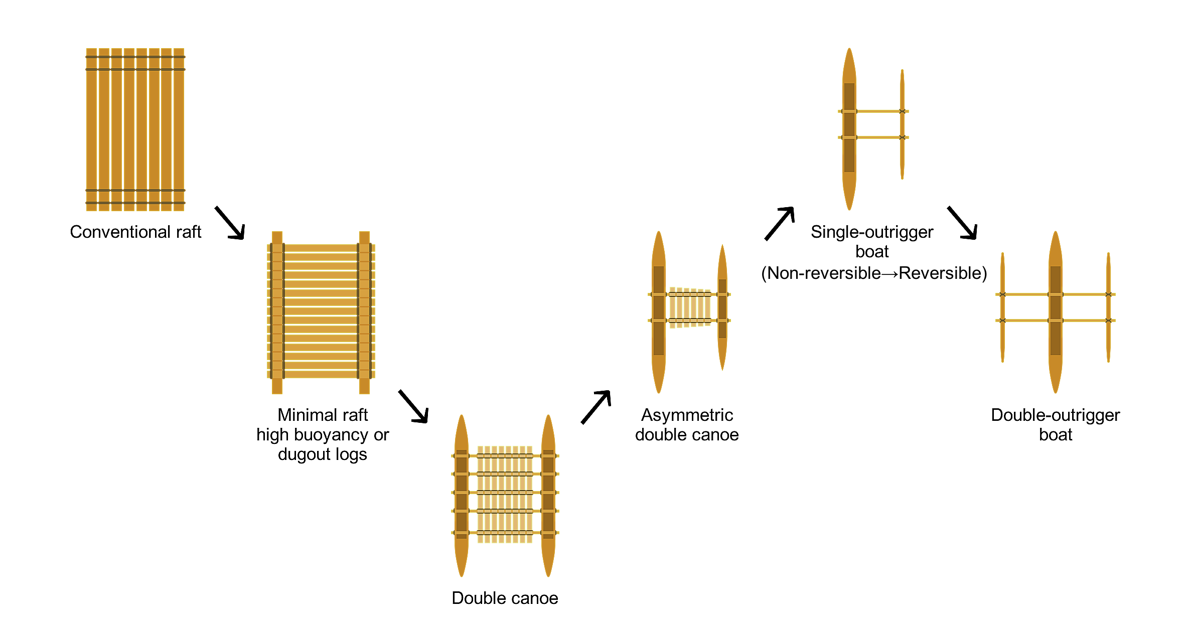 Succession of forms in the development of the Austronesian boat per Mahdi, Waruno (1999) "The Dispersal of Austronesian boat forms in the Indian Ocean" in Blench, Roger; Spriggs, Matthew , ed. Archaeology and Language III: Artefacts languages, and texts, One World Archaeology, 34, Routledge, p. 144-179 ISBN: 0415100542.